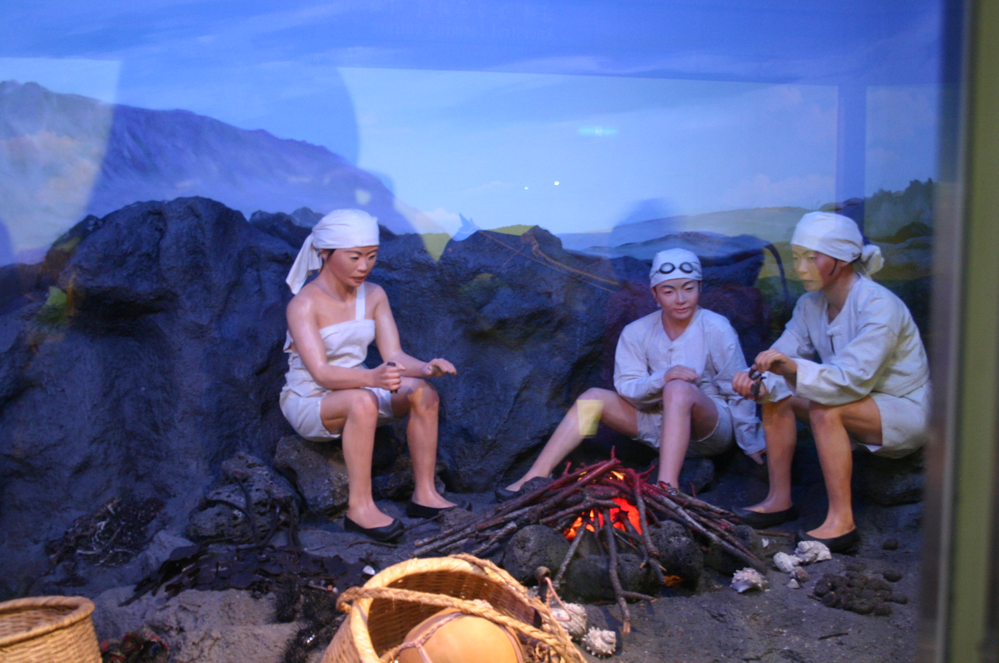 The models of resting haenyeo at the fireplace after diving. Haenyeo are female divers collecting seafood such as abalones, conch, shellfish under the sea for living in Korea.